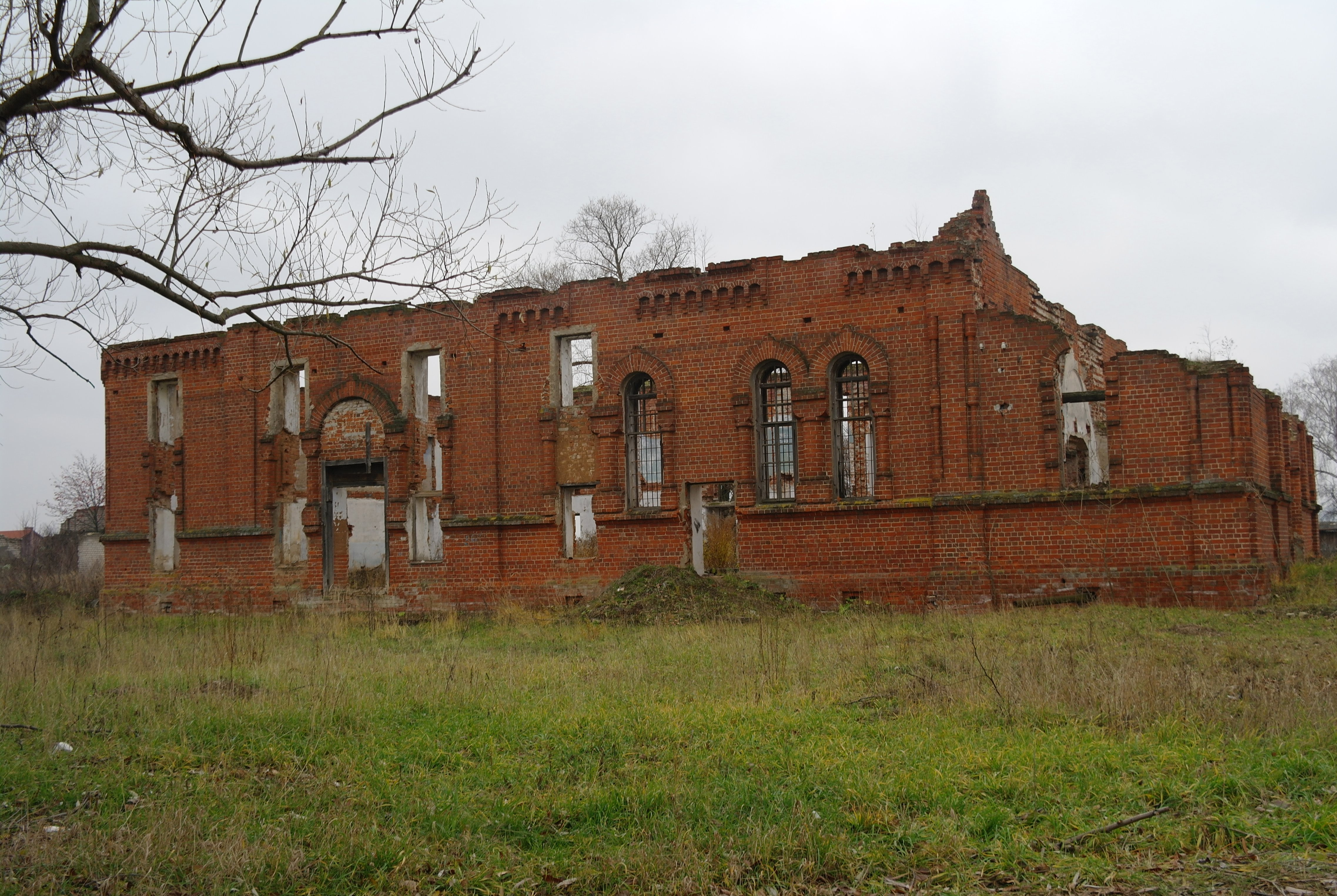 Ruins of Nikolsky church in Vladimirovo village (Borsky District of the Nizhniy Novgorod region)